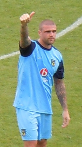 Mark Creighton. Image cropped from original at flickr.